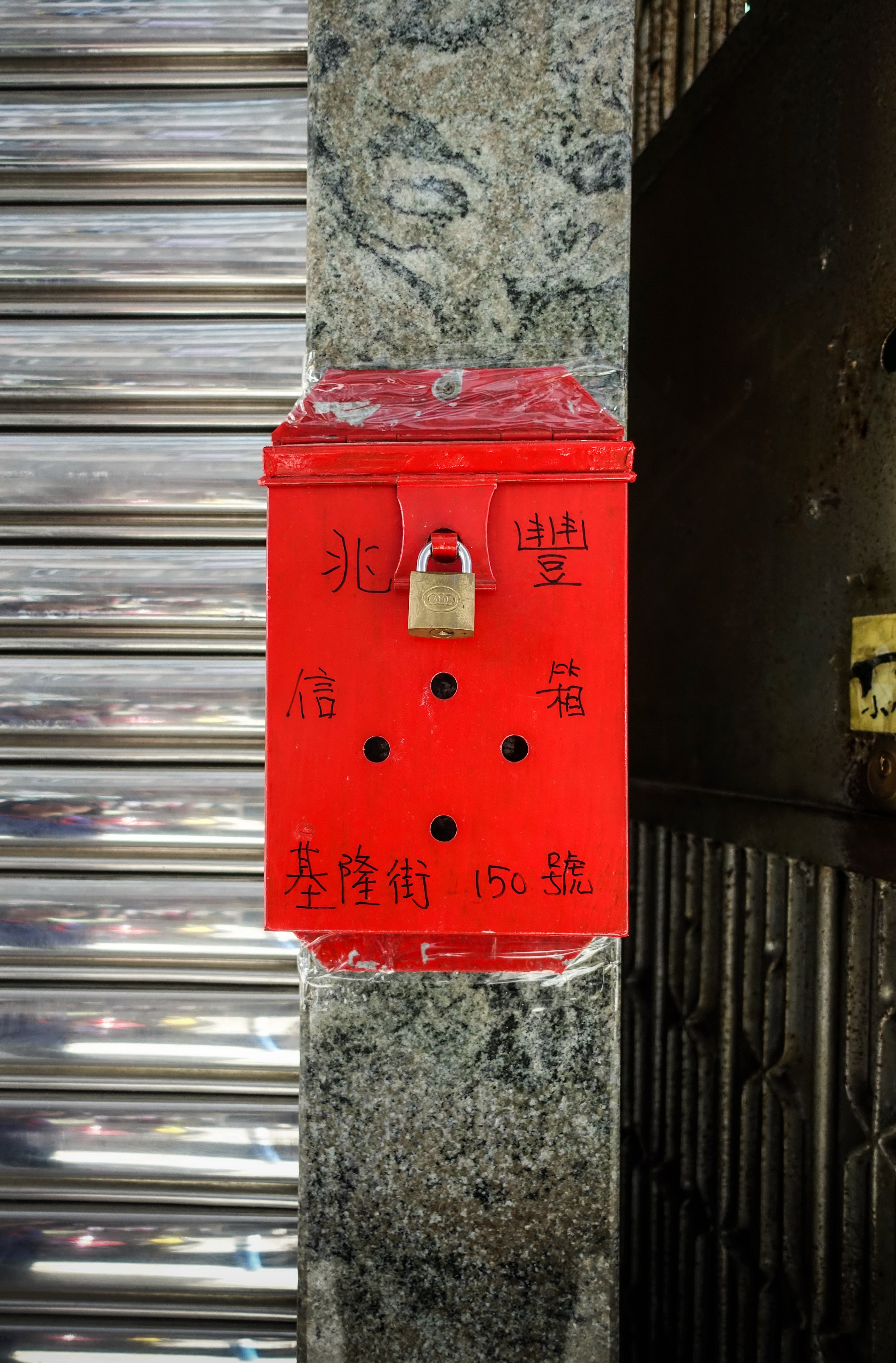 a traditional red wall-mount metal mailbox, Ki Lung Street, Kowloon, Hong Kong.